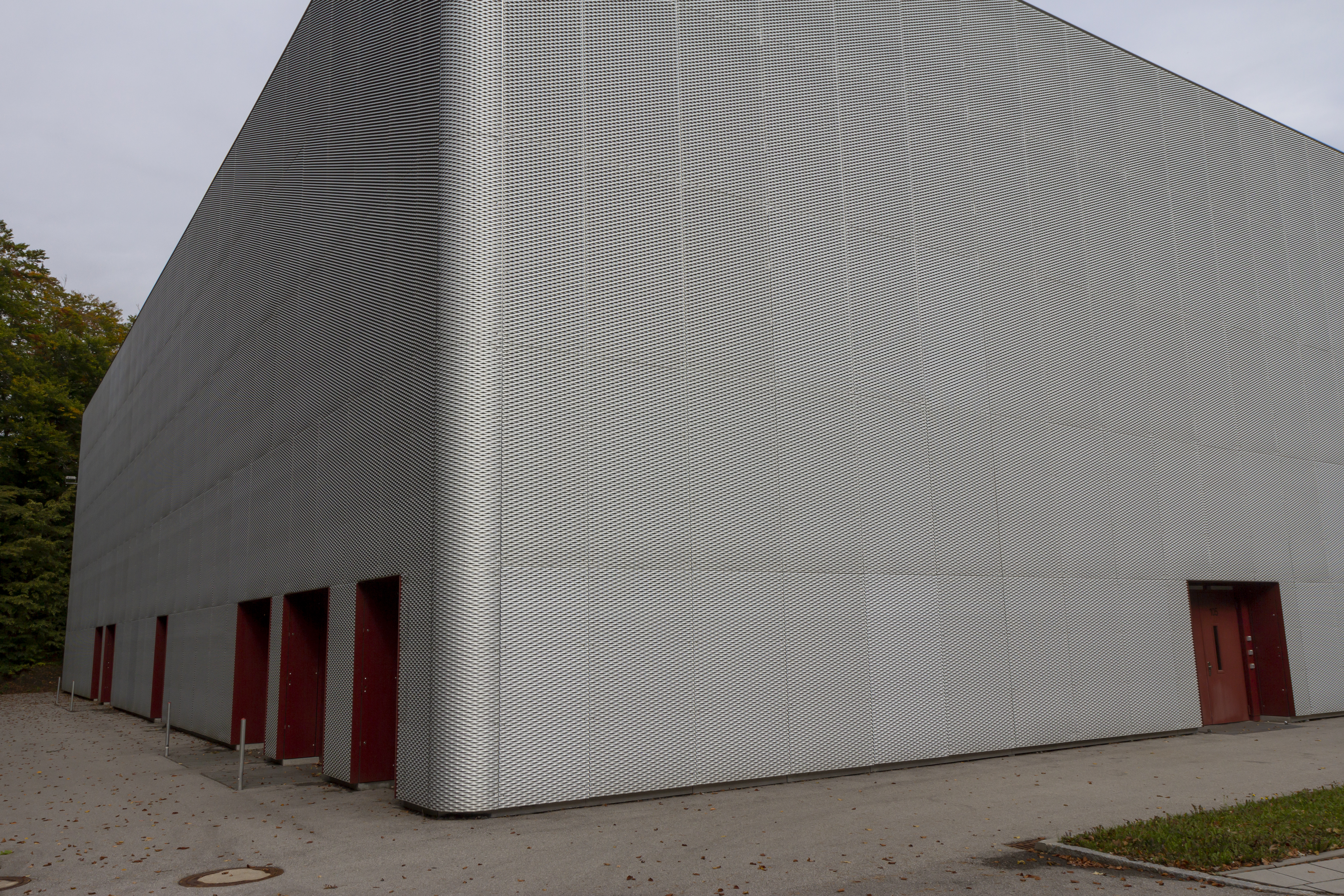 The Technical Enlightenment Center in Pullach of the Federal Intelligence Service: Data Center